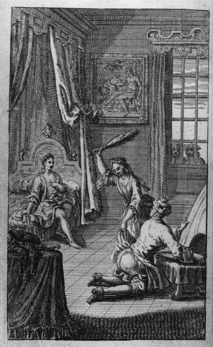 Frontispiece to the 1718 edition of A Treatise of the Use of Flogging in Venereal Affairs by Meibomius